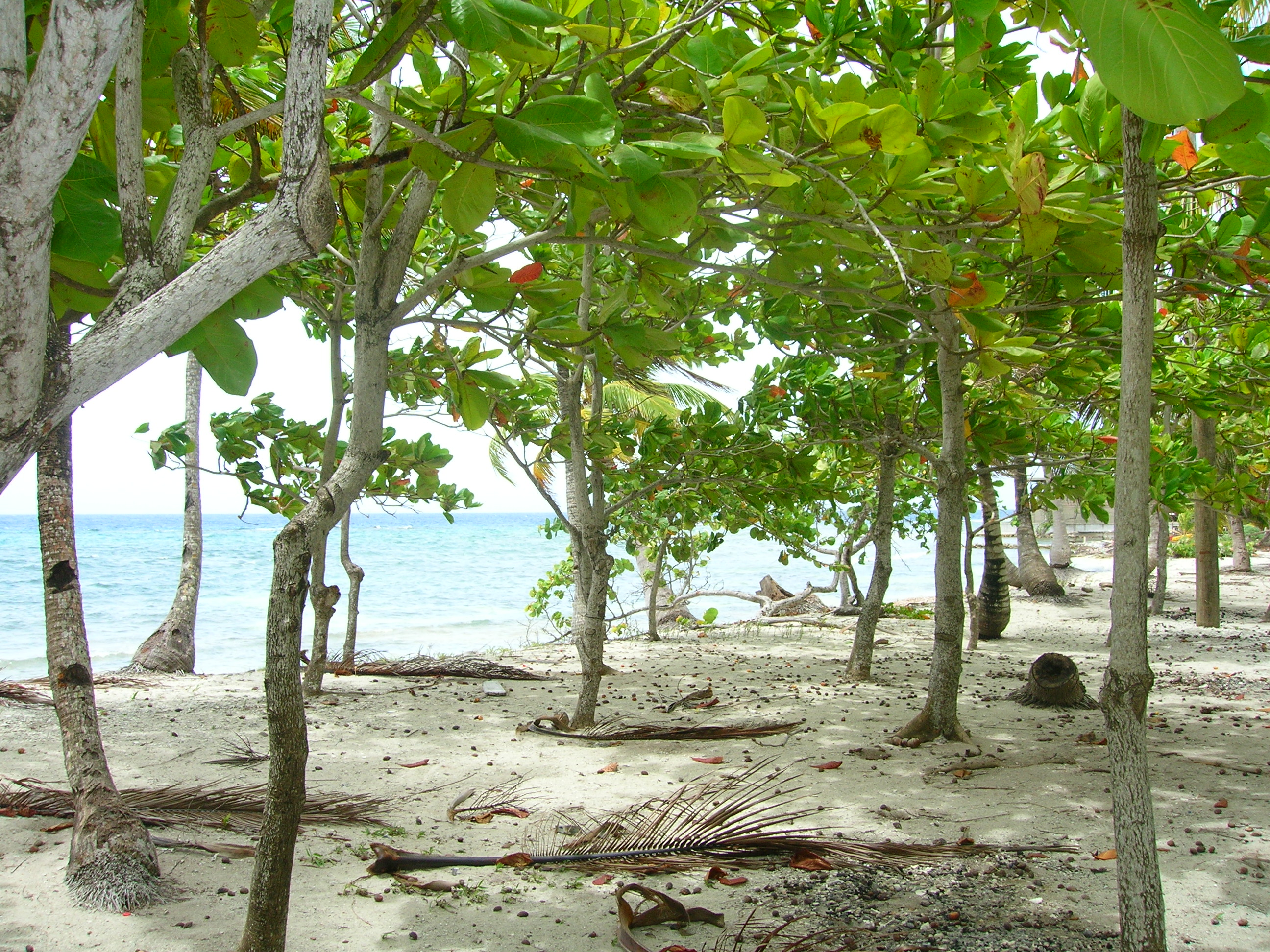 Beach at Utila Island, Honduras